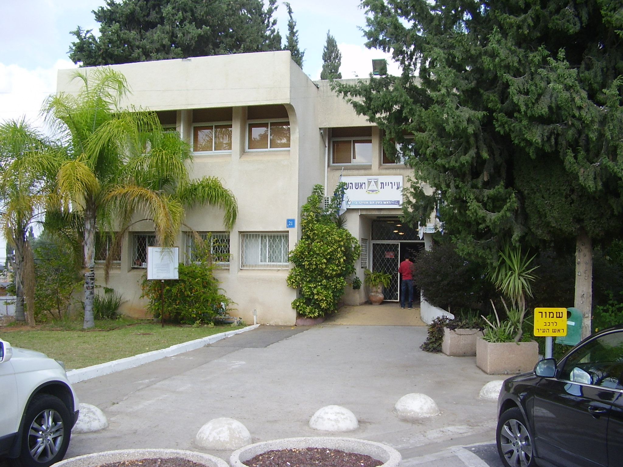 rosh ha'ayin municipality, israel עיריית ראש העין